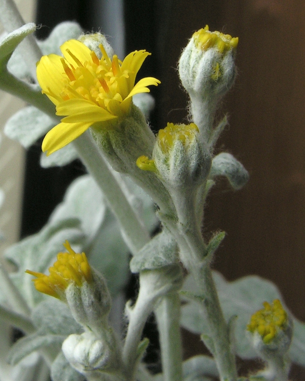 Inflorescences of Silver Ragwort at the beginning of flowering. Diameter of the biggest inflorescence is 10 mm.